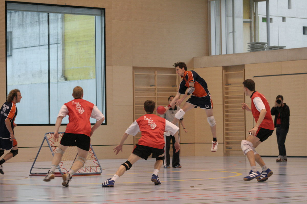 Swiss Championship final